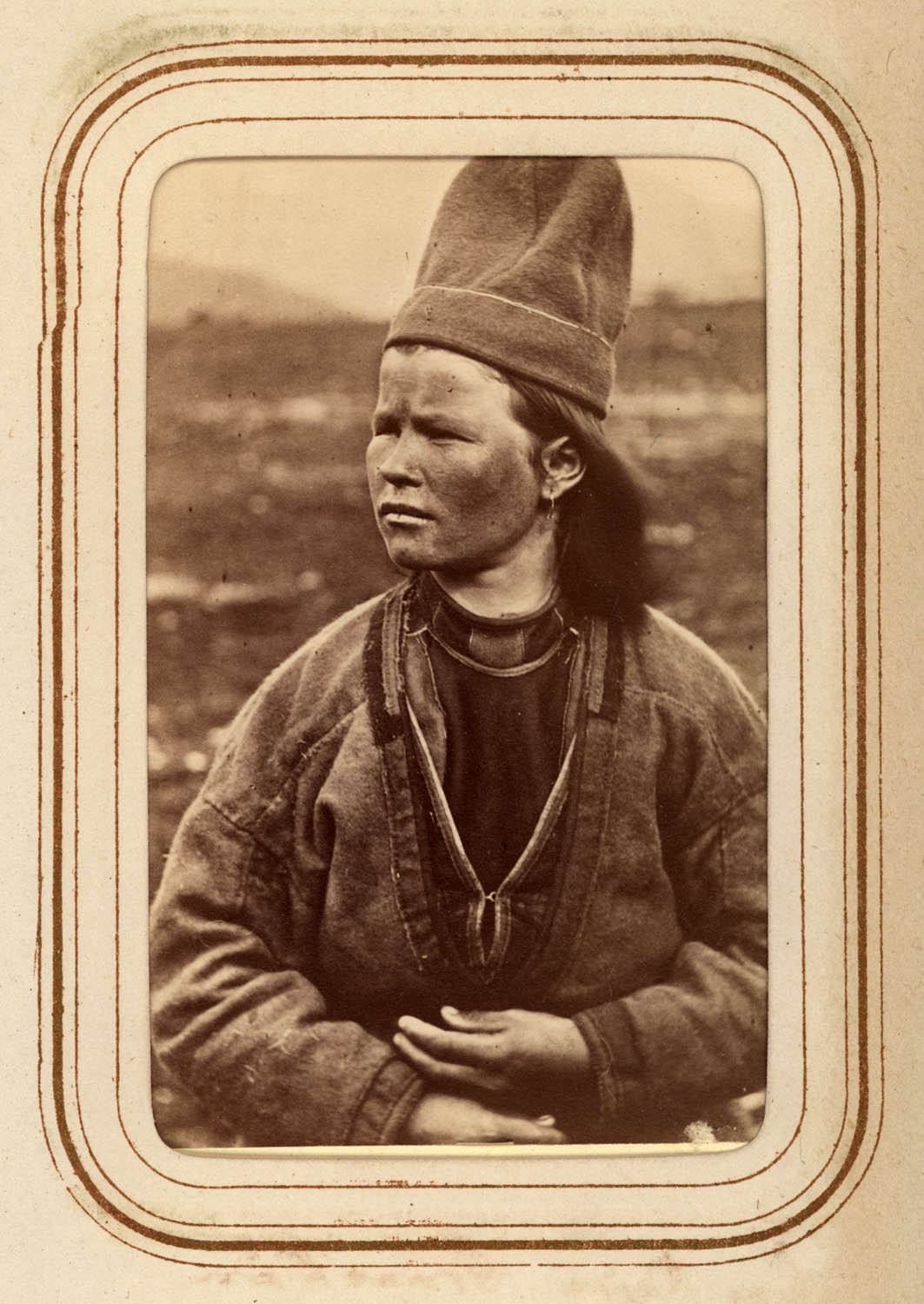 Depicted person: Inga Kajsa Granström (born 1845) depicted place: Lappland, Lule lappmark, Jokkmokk, Tuorpon (Sverige (SE))